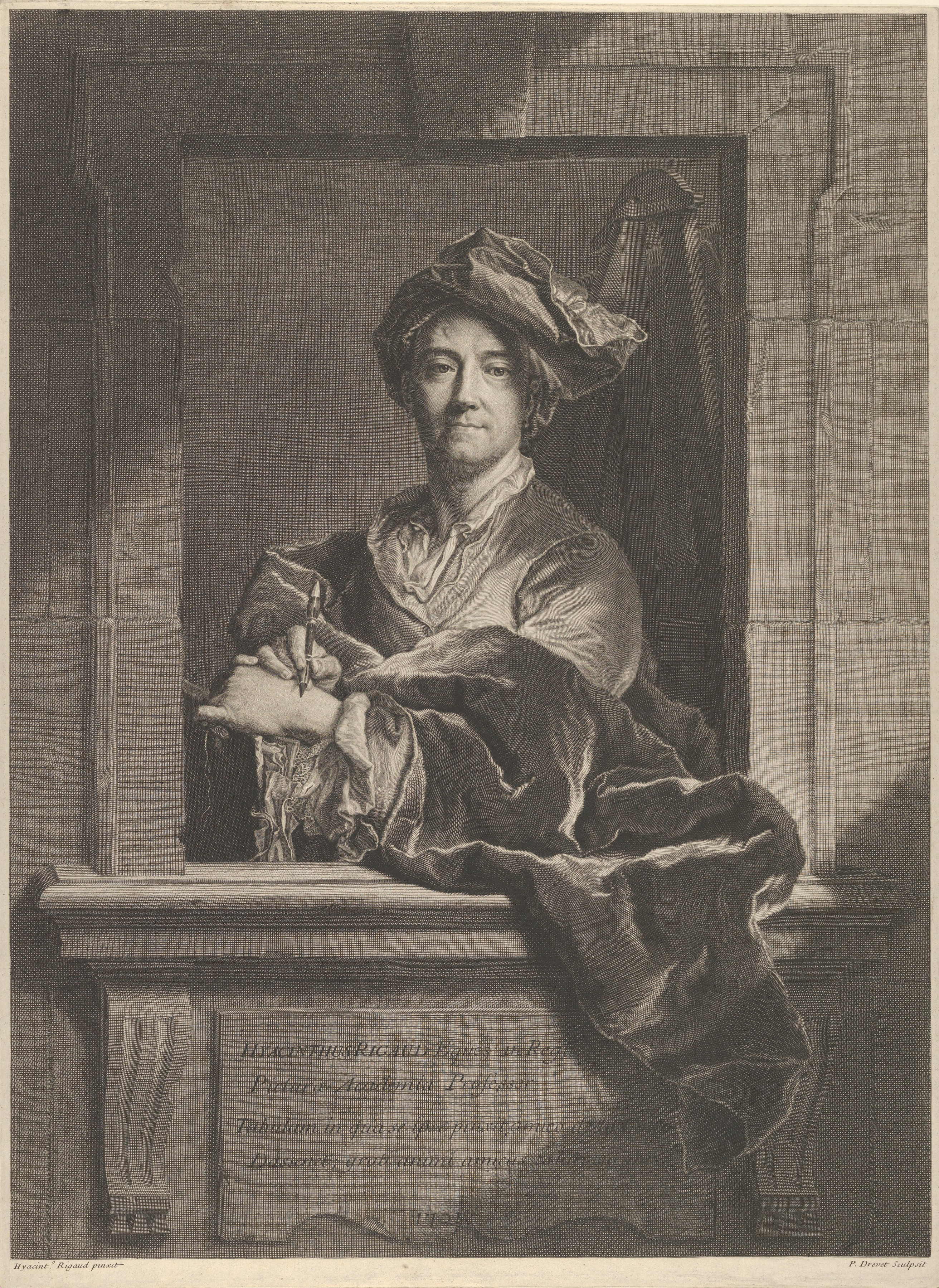 Print; Prints